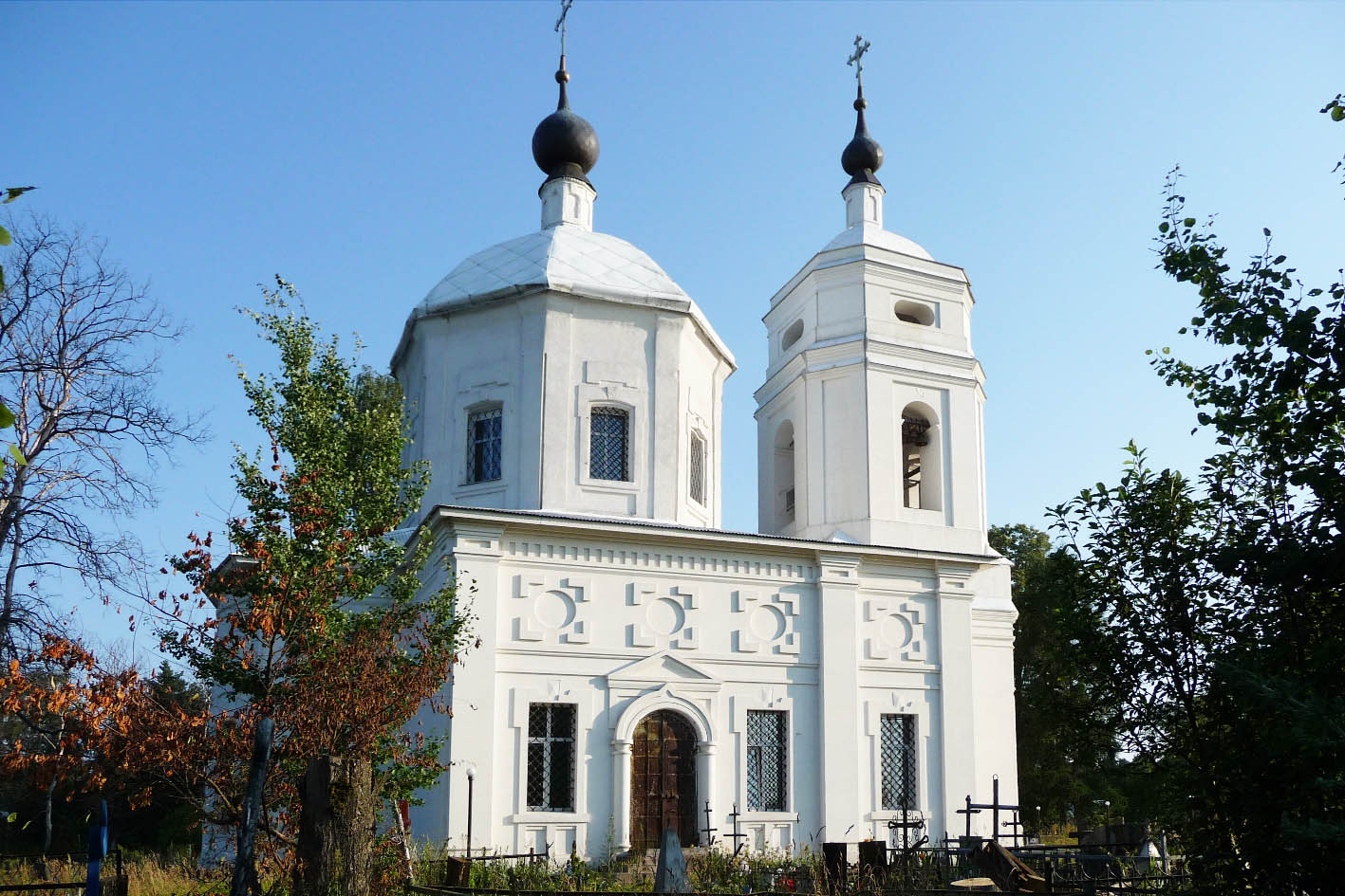 The Church of the Holy Mandylion (1785) in the village of Kablukovo. Shchyolkovsky District. Moscow oblast. Russia.